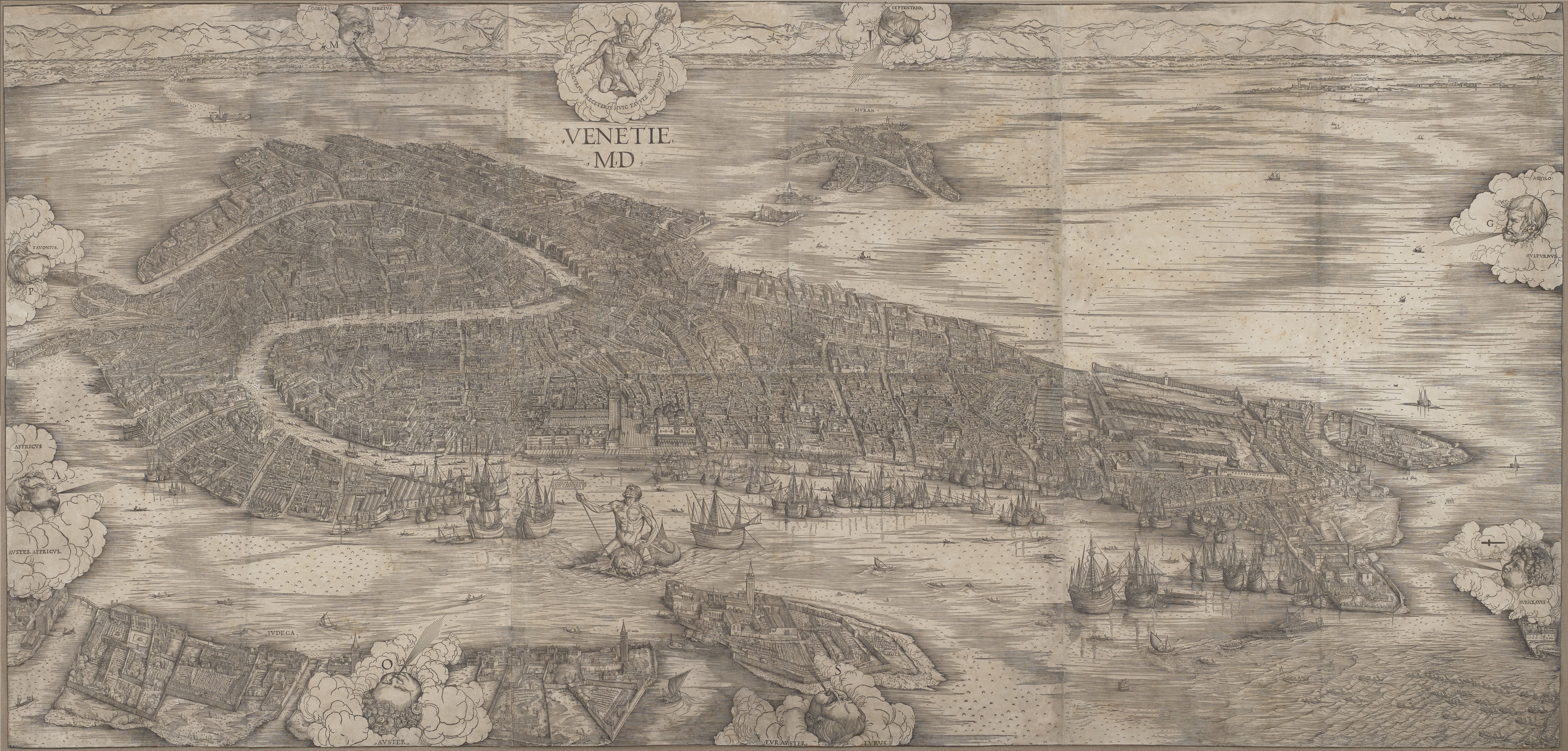 bird's-eye view of Venice. The view is in unusually good condition. The first state showing the Campanile in Piazza San Marco with the temporary flat roof after a fire in 1489. In the second state the block was altered to take account of the restoration work done in 1511-4 and the date 1500 ("MD") was removed.